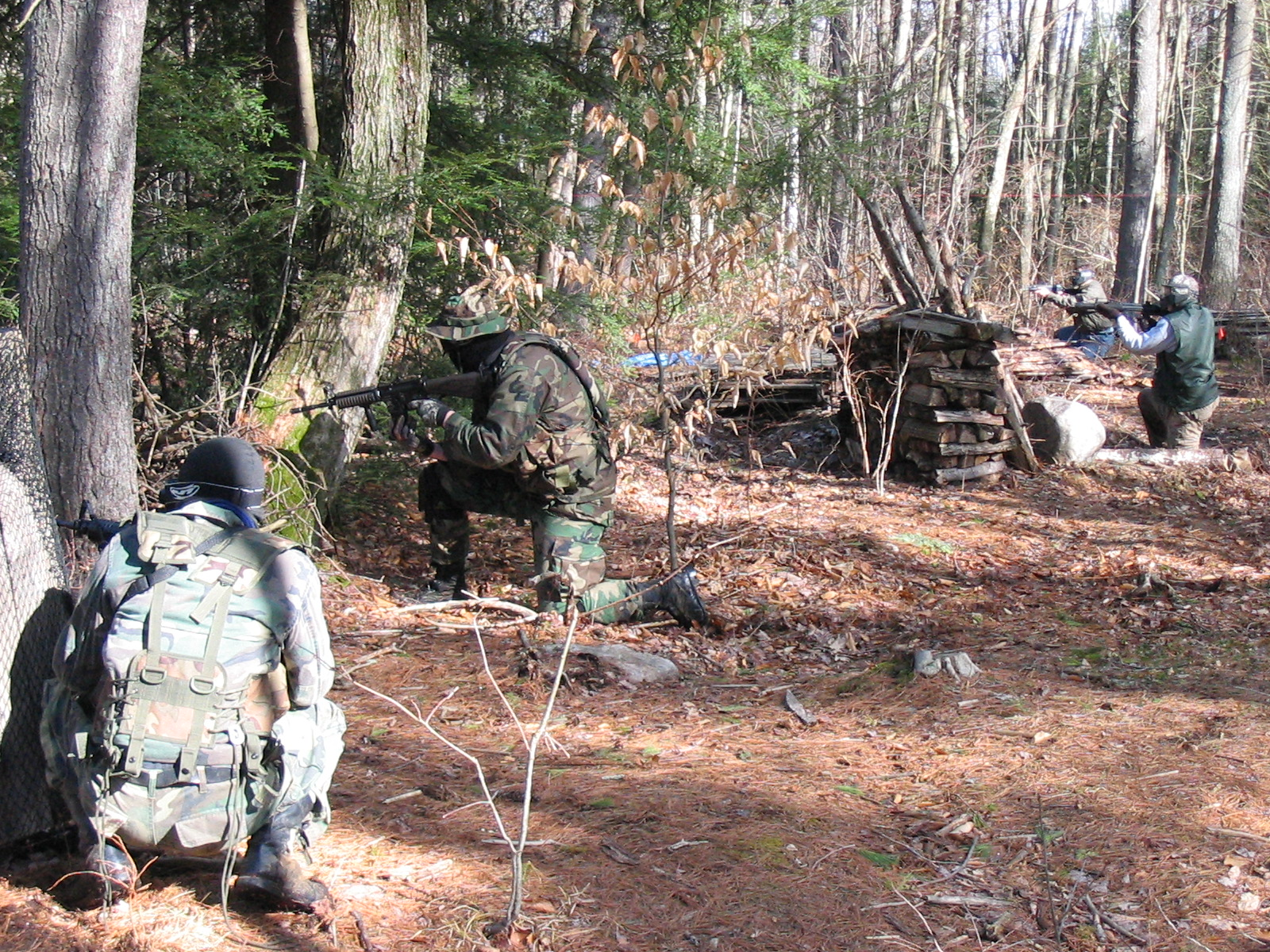 Four players on Rockingham Paintball's "Rock" field getting ready to attack.